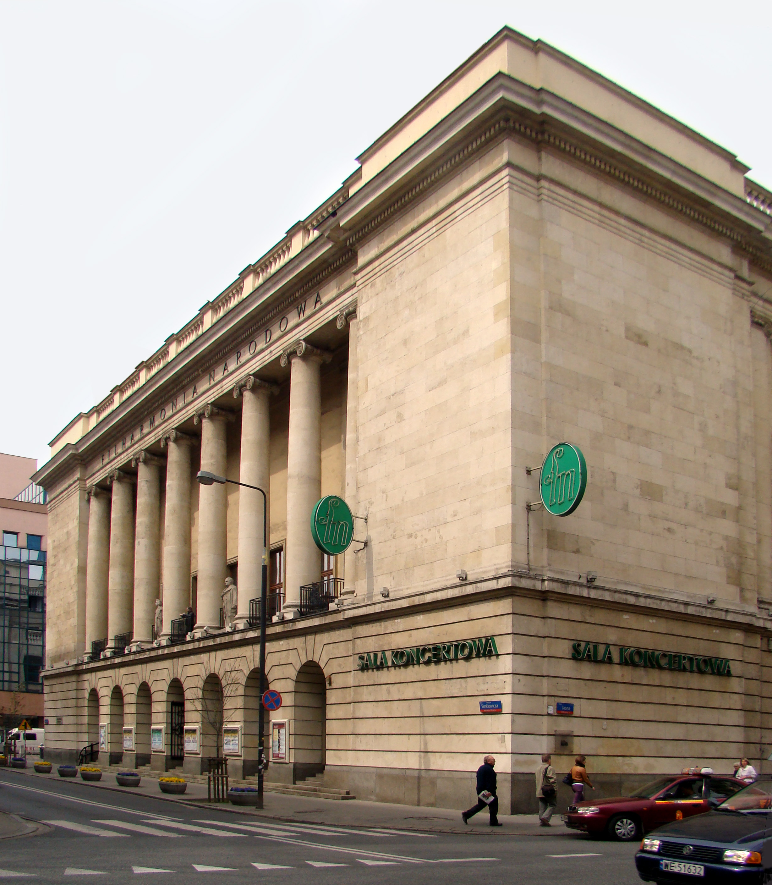 Warsaw National Philharmonic